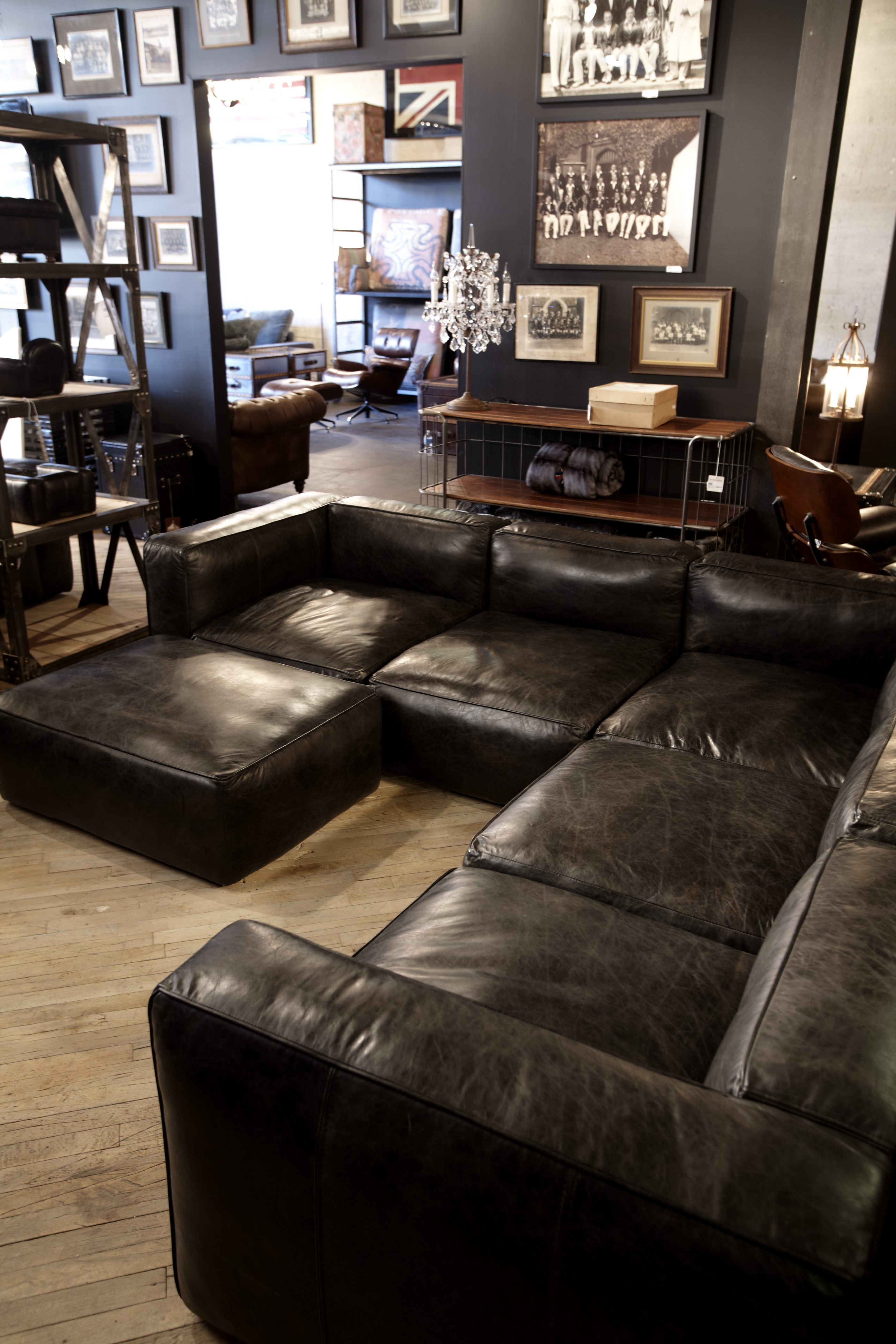 Timothy Oulton Room Set @ HD Buttercup